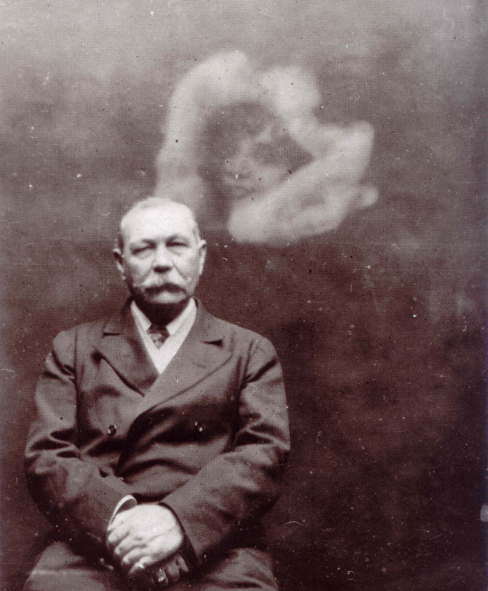 Spirit photograph taken of Sir Arthur Conan Doyle by Ada Deane, 1922